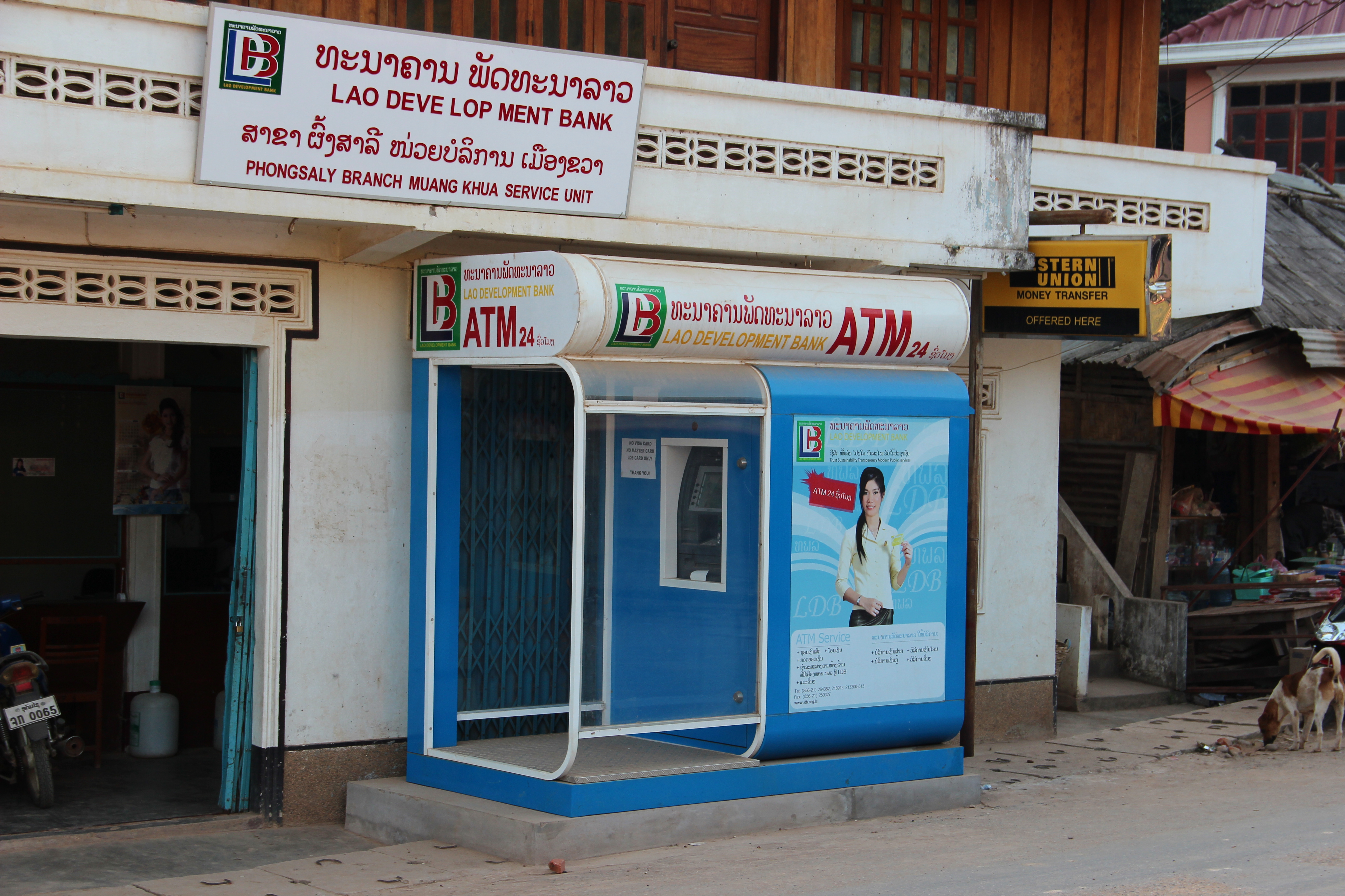 A Lao Development Bank ATM in Muang Khua, Laos.